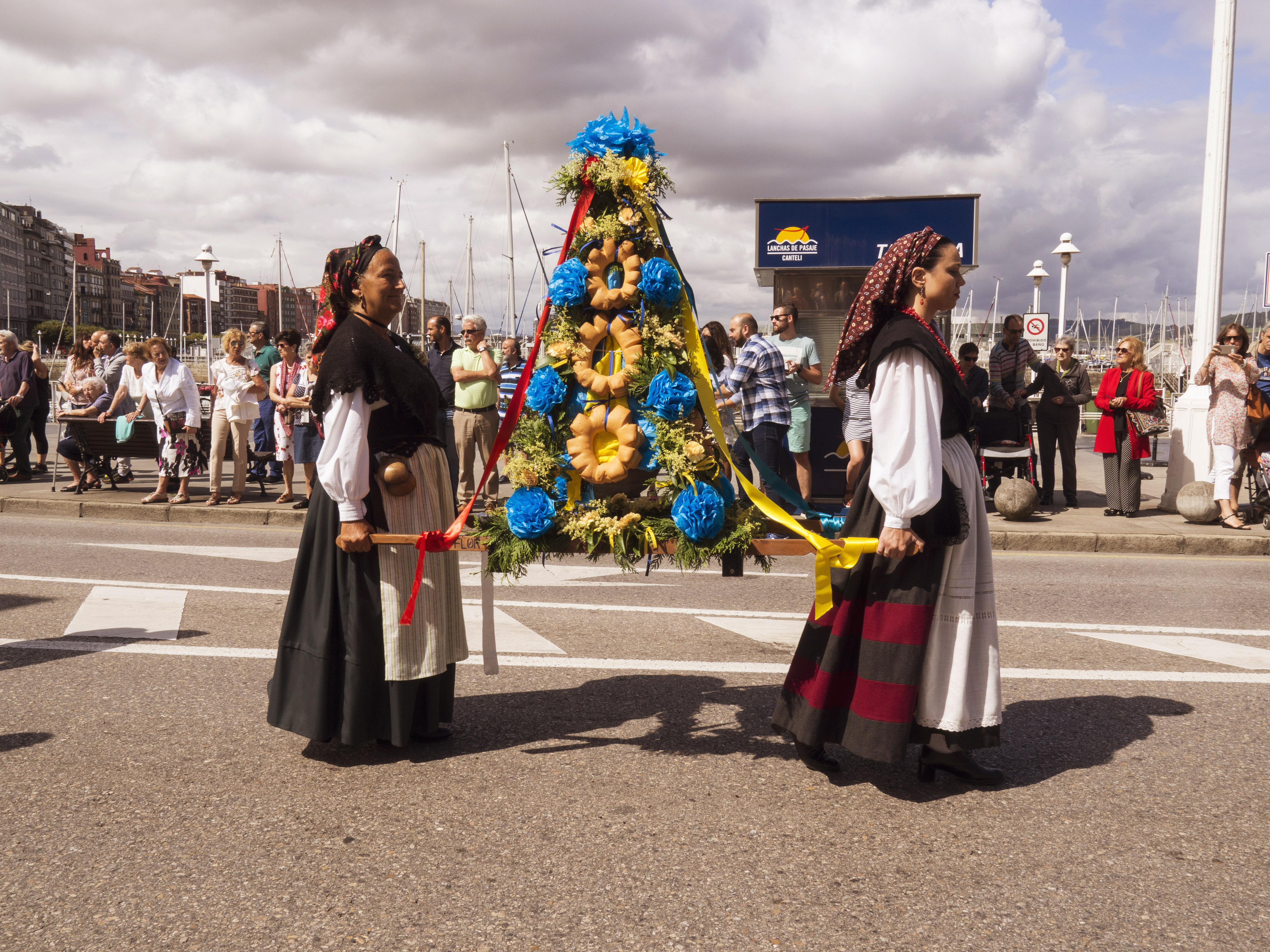 La "puxa del ramu" es una ceremona antigua que nunca falta en las fiestas asturianas . El dinero obtenido se dedica a alguna obra de caracter social. This is a photography of a Folklore festival in Spain (Wikidata id Q8771143).